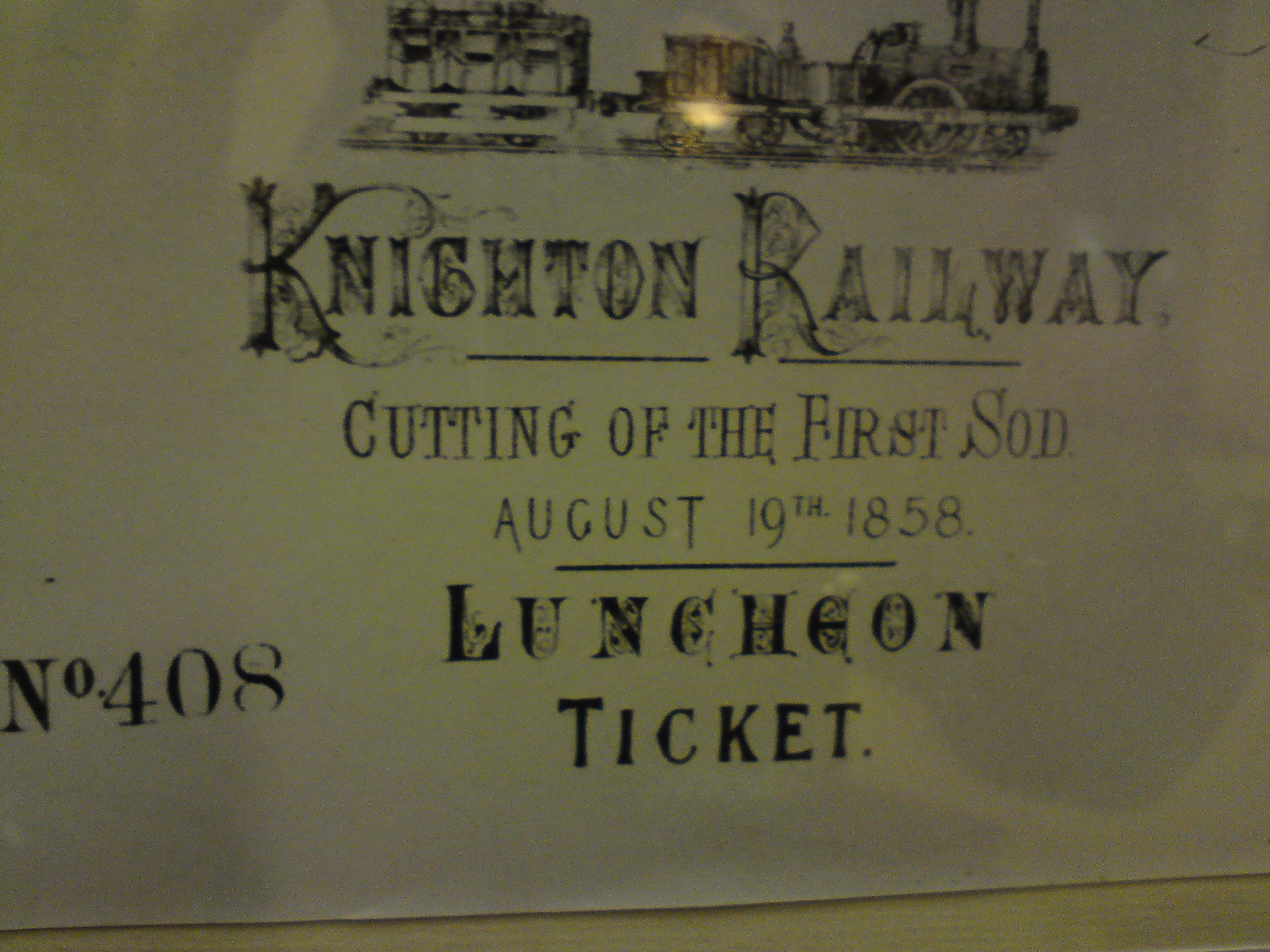 Knighton Railway Victorian Flyer